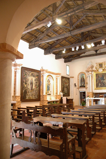 Left side of the Church of Saints Fabiano and Sebastian, Fiamognano, Italy